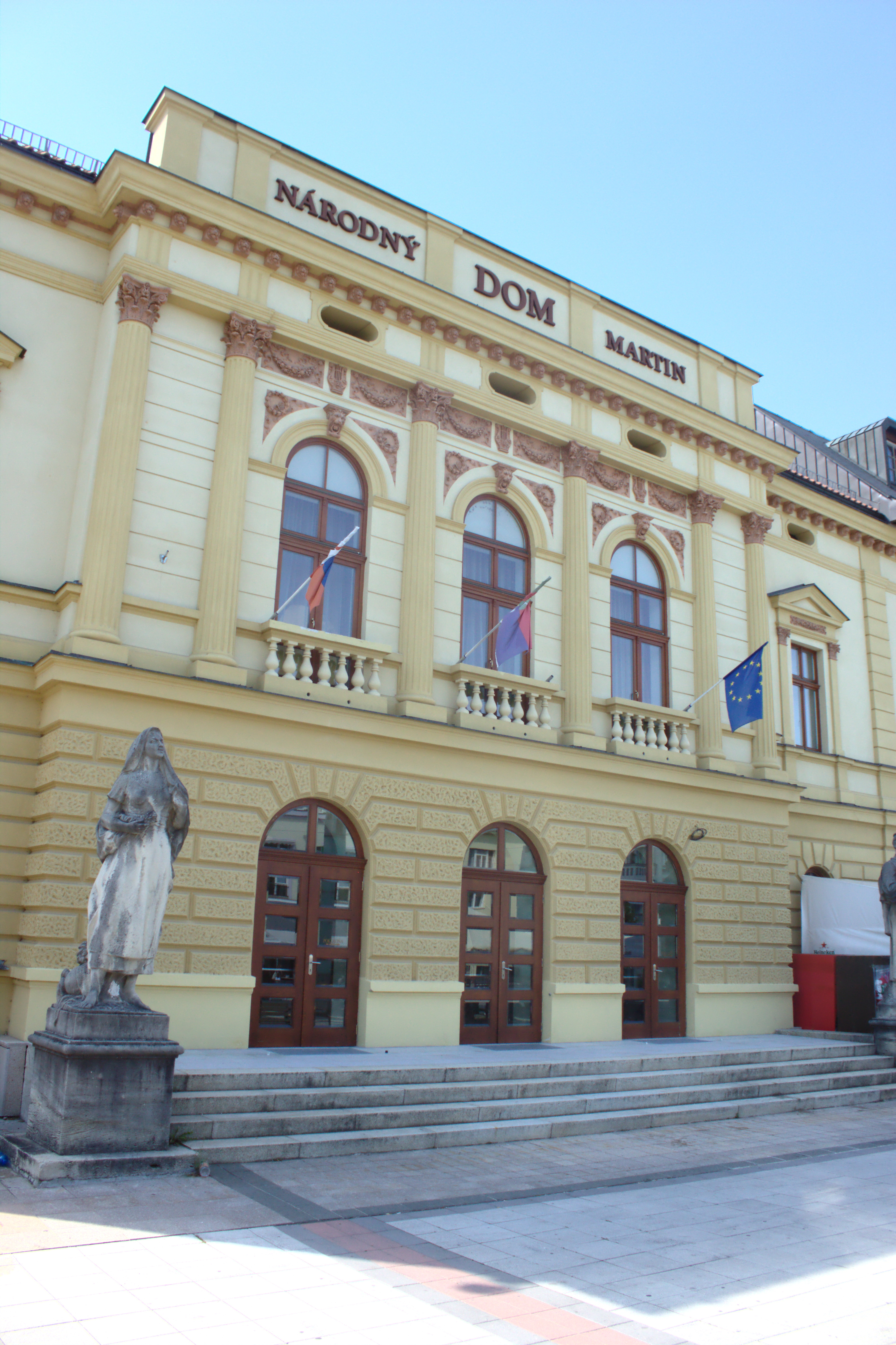 National House in Martin, SK